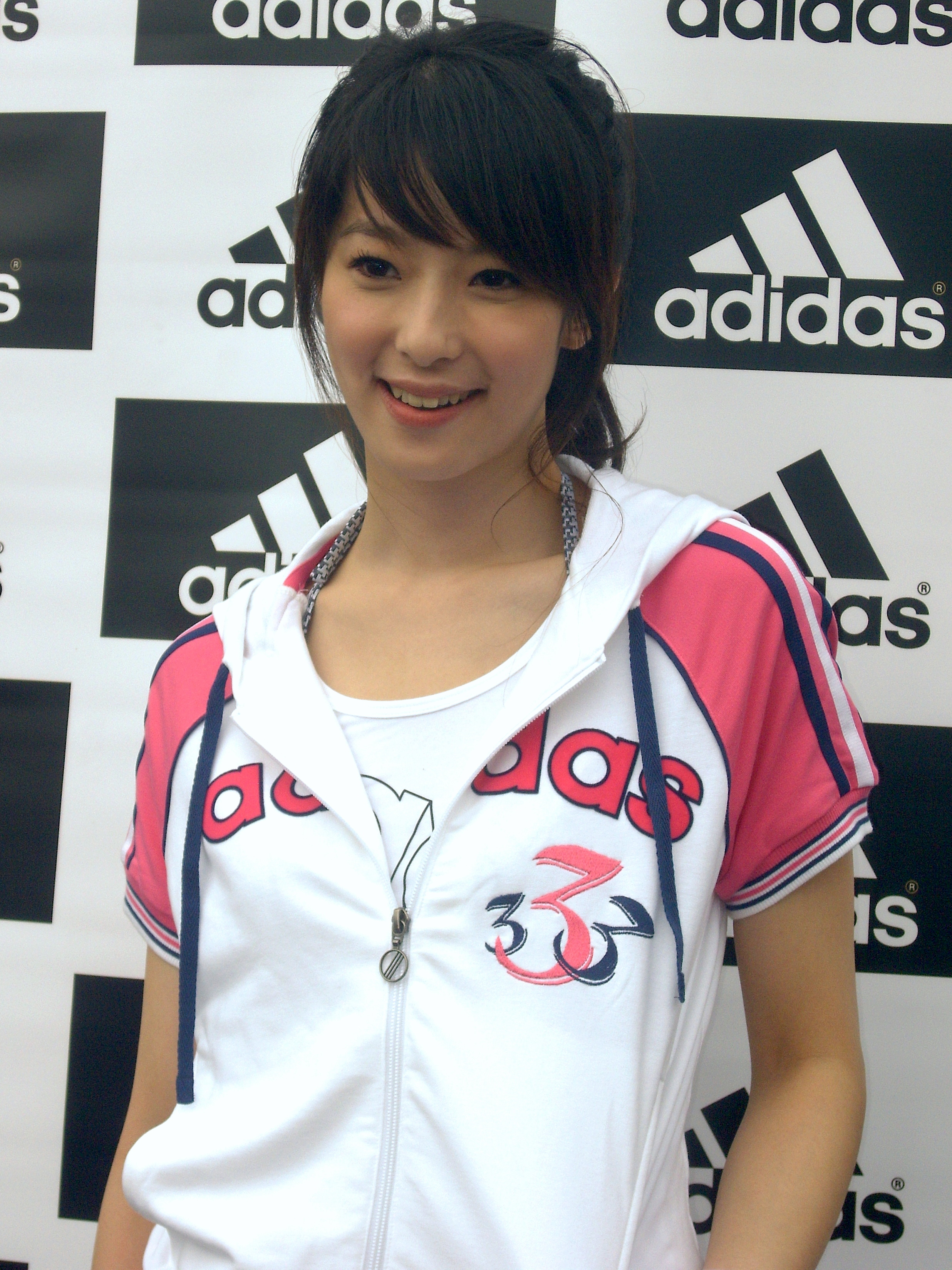 Adidas Run For 2008 Olympics in Taiwan: Megan Lai.Bân-lâm-gú: 2008-nî tī Tâi-uân, Luā Ngá-giân tī Adidas uī kuat-sìng Pak-kiann jî pháu. 2008年佇臺灣，賴雅妍佇「愛迪達(adidas)為決勝北京而跑」。